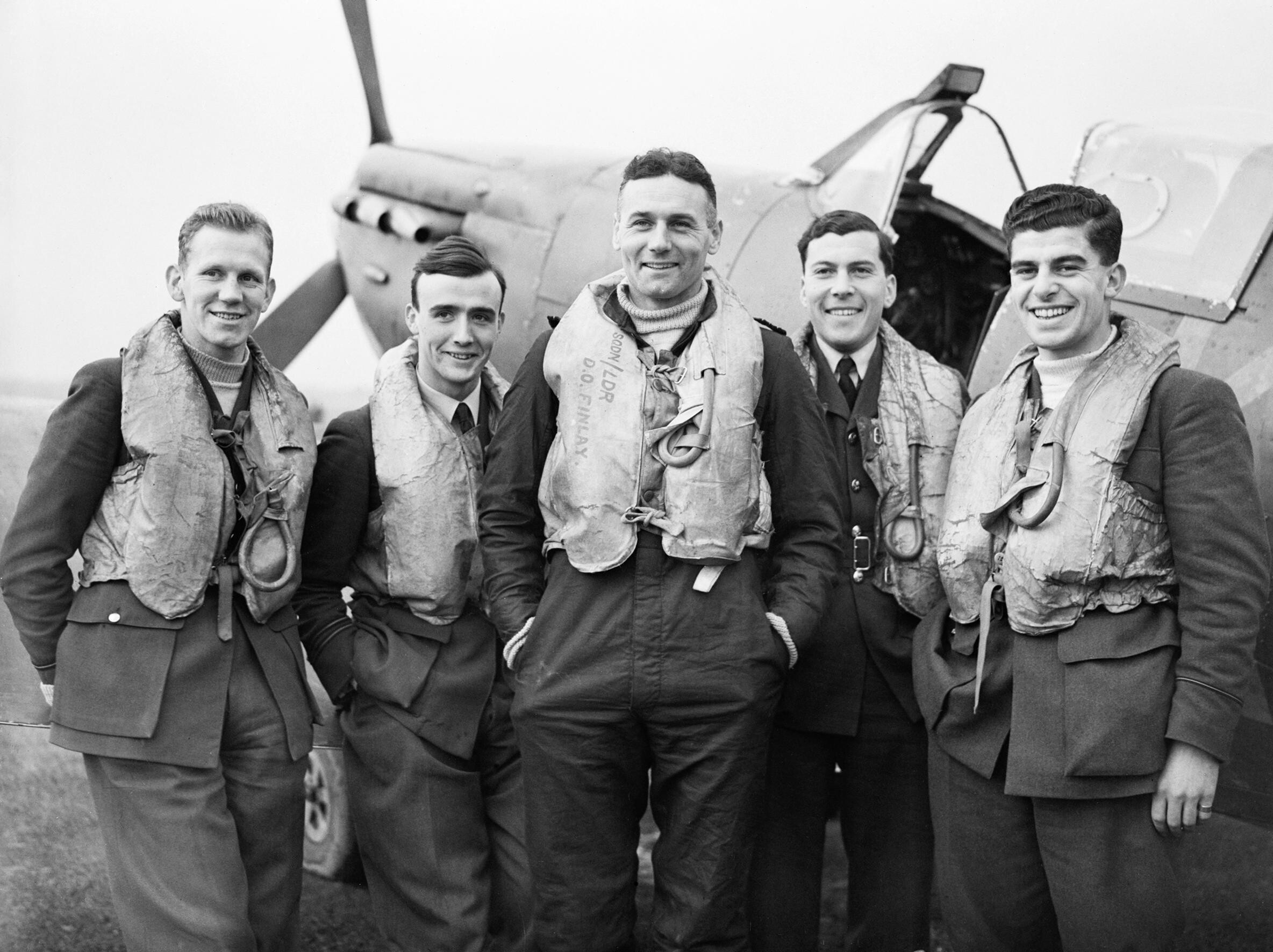 Squadron Leader D Finlay, CO of No. 41 Squadron RAF, standing with four of his pilots in front of a Supermarine Spitfire Mk II at Hornchurch, Essex, December 1940. Squadron Leader D O Finlay, the former British Olympic hurdler and Commanding Officer of No. 41 Squadron RAF, standing by a Supermarine Spitfire Mark IIA with four of his pilots at Hornchurch, Essex. They are (left to right): Flying Officer John MacKenzie, Flight-Lieutenant A D J Lovell, Squadron Leader Finlay, Fligh-Lieutenant N Ryder and Pilot Officer R Ford.